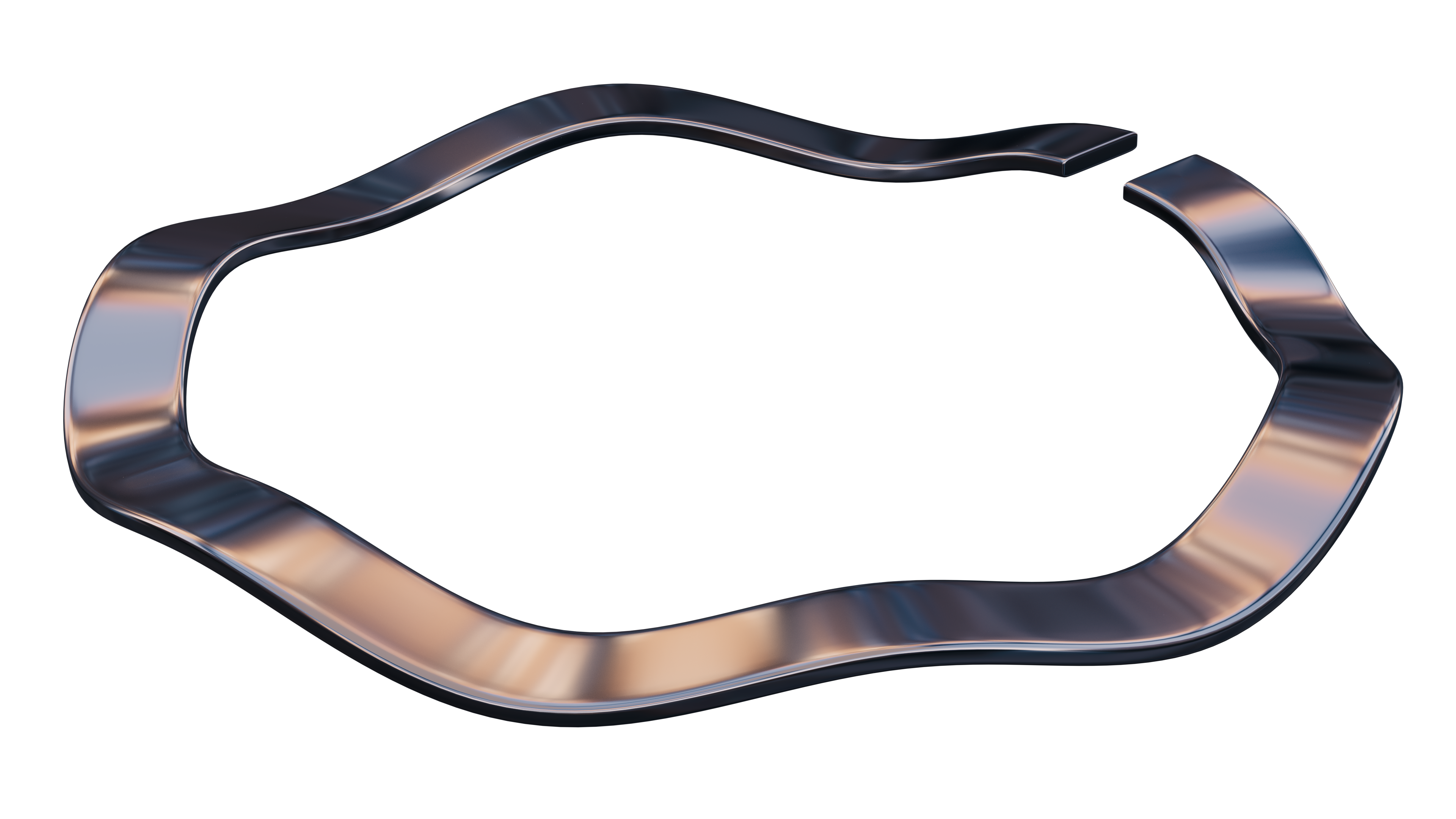 A raytraced 3D model of a single turn wave spring